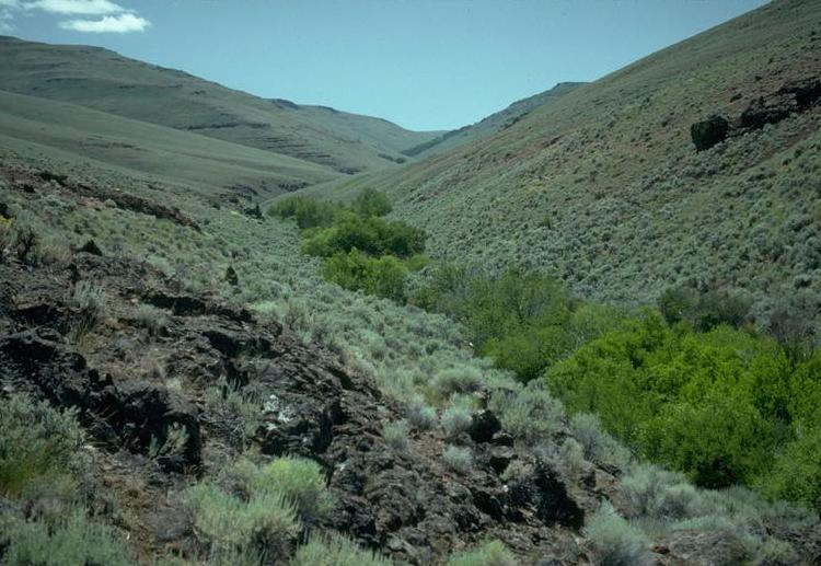 The riparian zone along Trout Creek in the Trout Creek Mountains in the Burns Bureau of Land Management District in southeastern Oregon